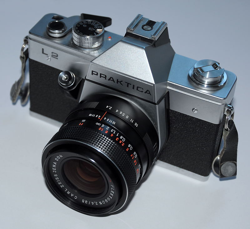 Praktica L 2 with Carl Zeiss Flektogon 2.4/35mm lens (1976)